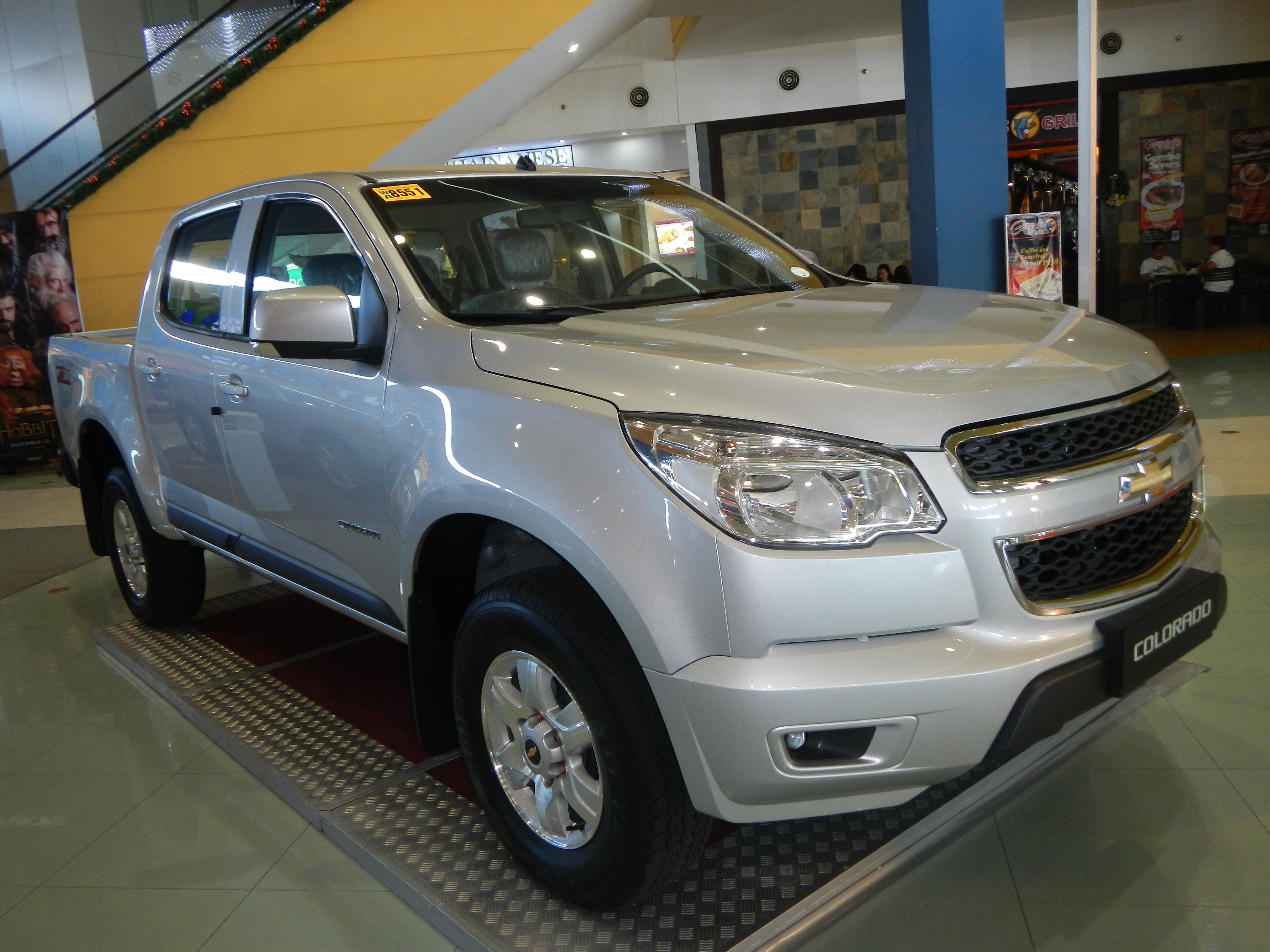 Chevrolet Colorado[1]Duramax Diesel[2], Philippines